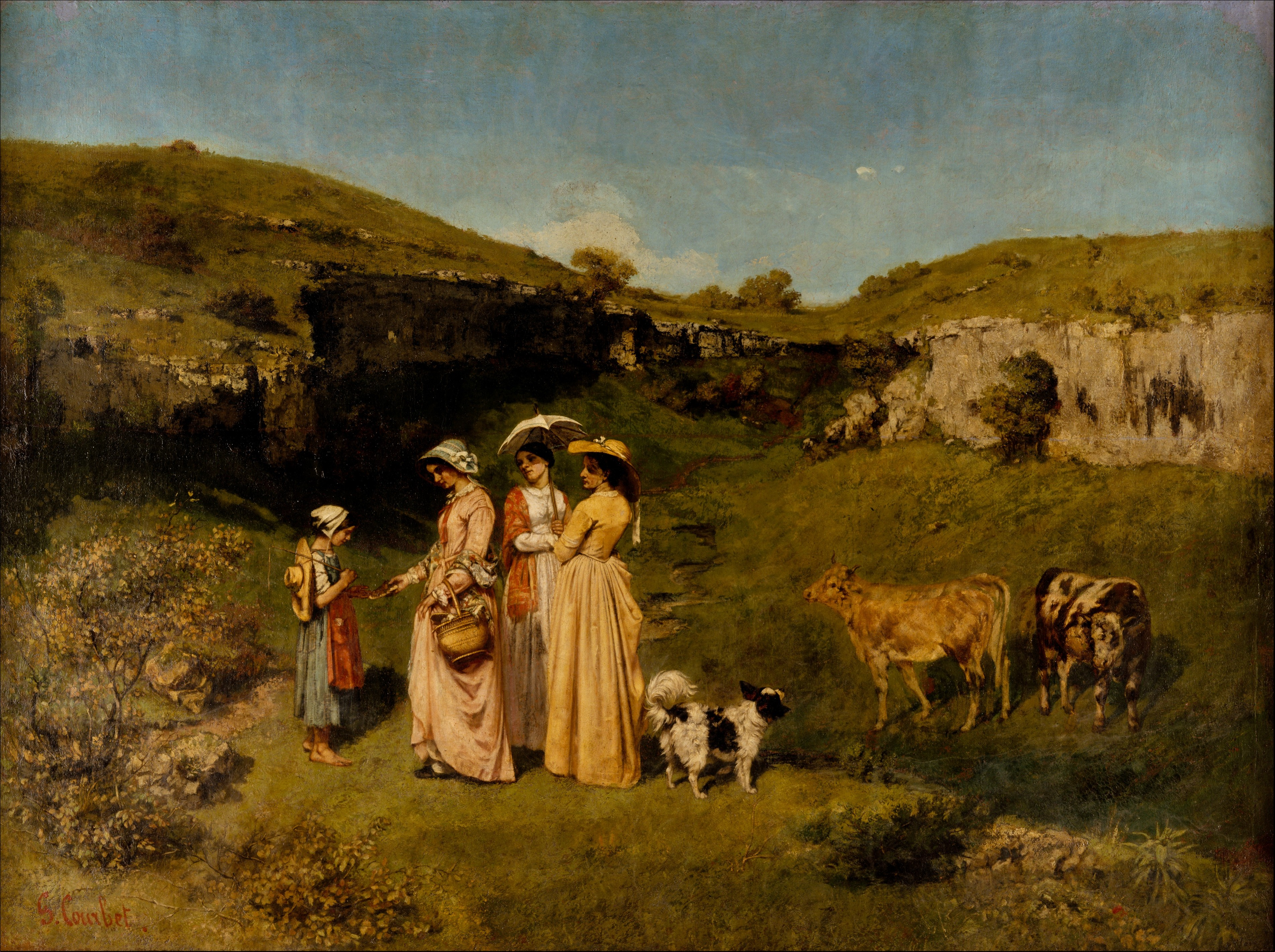 Courbet’s three sisters—Zélie, Juliette, and Zoé— are strolling in the Communal, a small valley near his native village of Ornans. One of the girls offers alms to a young cowherd.